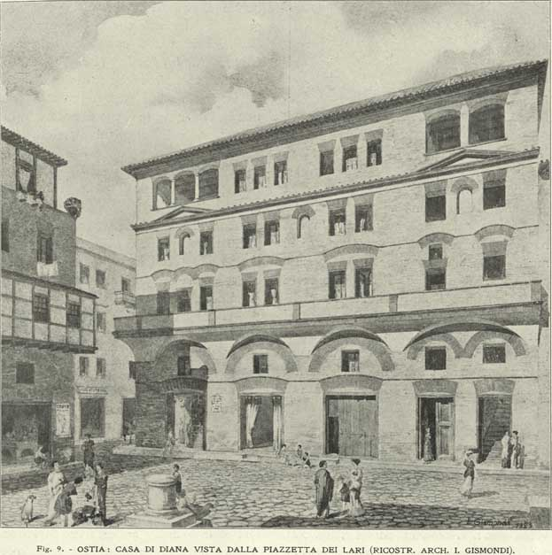 Ostain insula reconstructed by Italo Gismondi. In GUIDO CALZA: Le origini latine dell'abitazione moderna (I) (1923)